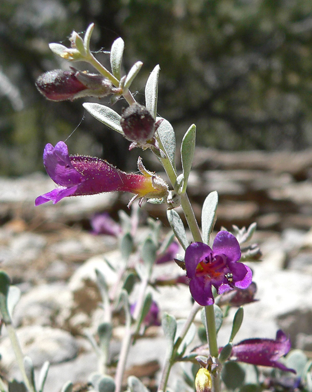 Penstemon thompsoniae subsp. jaegeri off State Road 158 near Desert View, Spring Mountains, southern Nevada